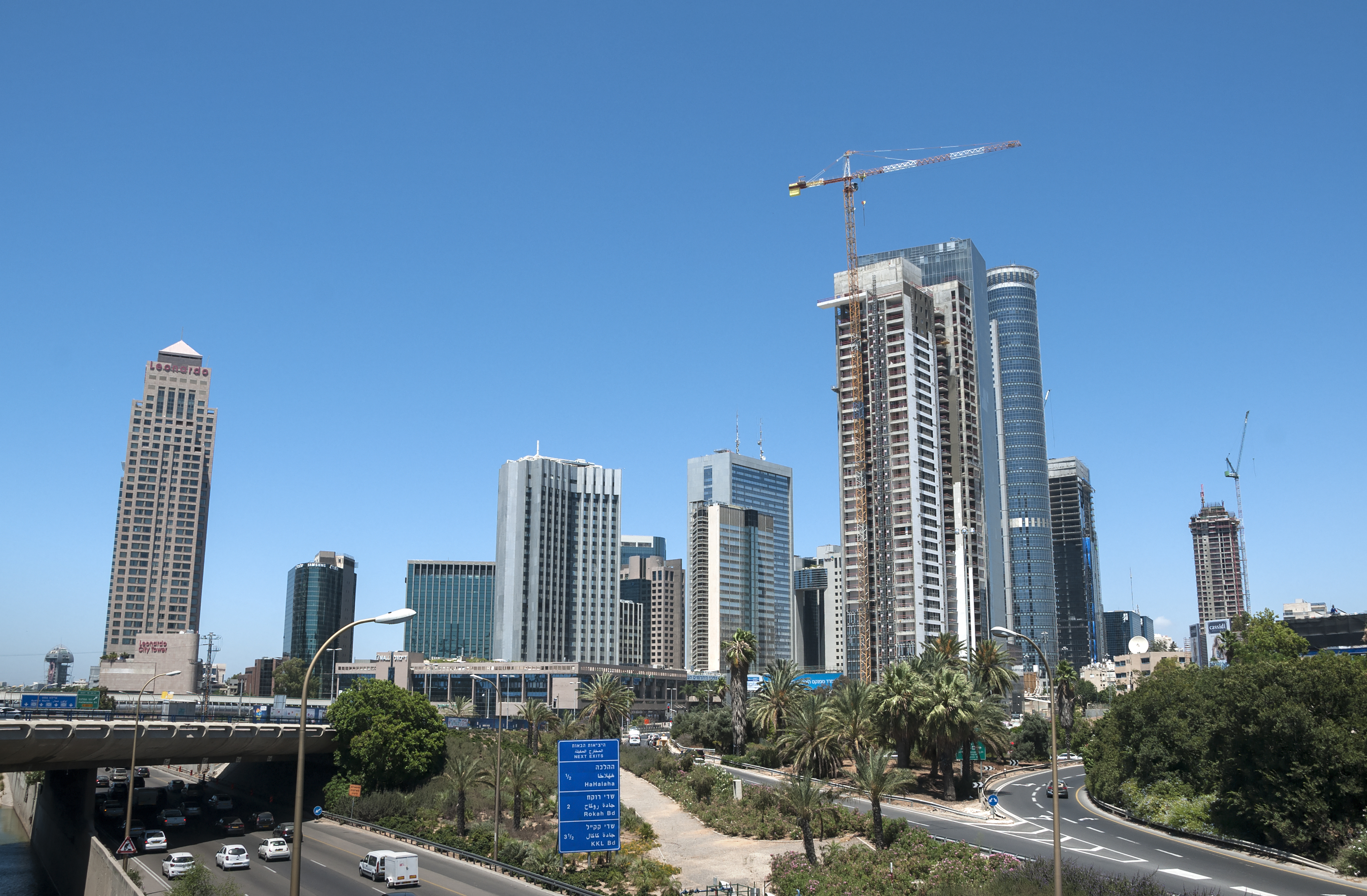 The Ramat Gan Diamond Exchange District in June 2016.